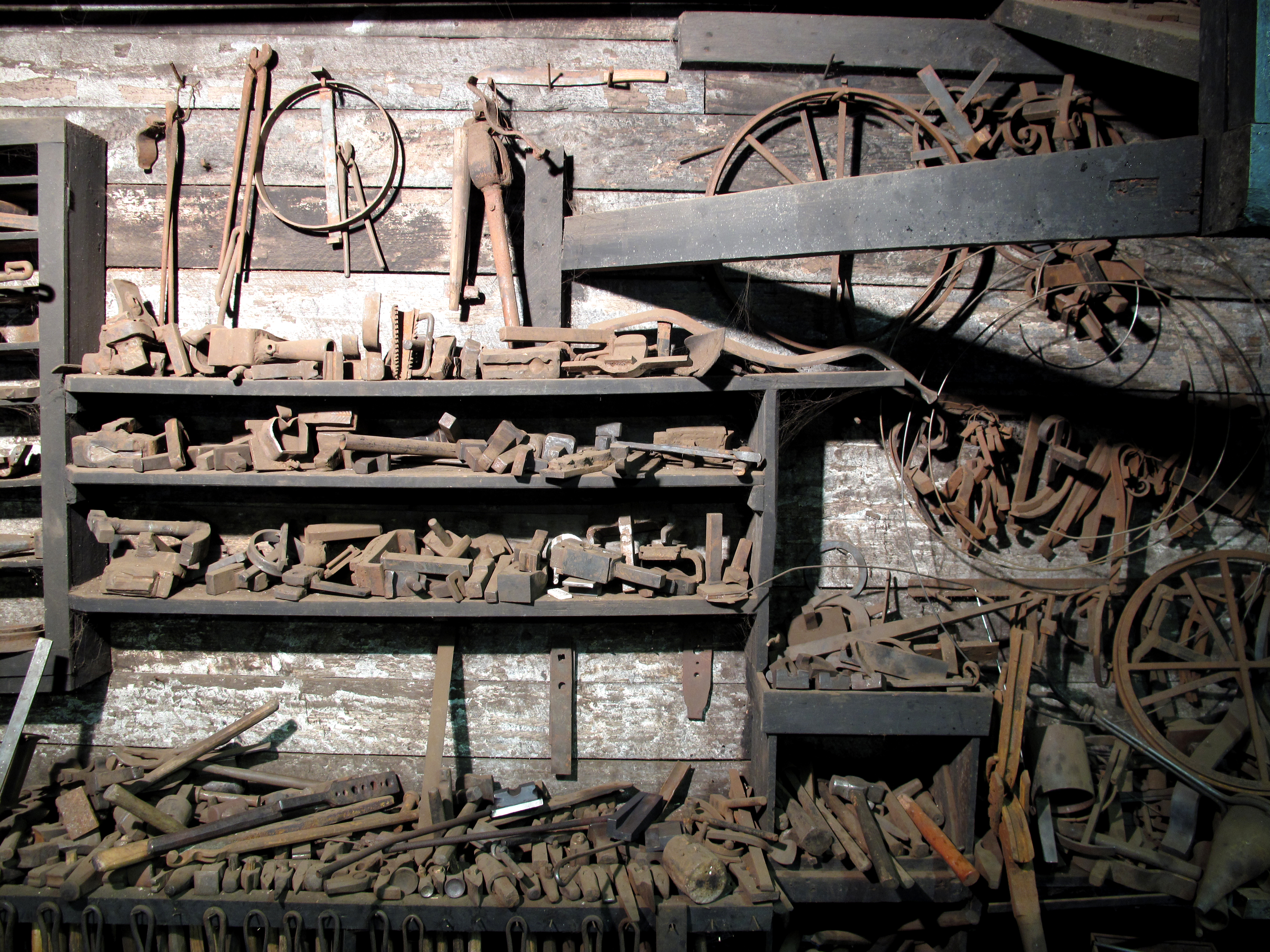 A typical smithy in Finland. Shot during a tourist trip to artist blacksmith Jesse Sipola's smithy next to lake Bodom. Typical tools on the wall.